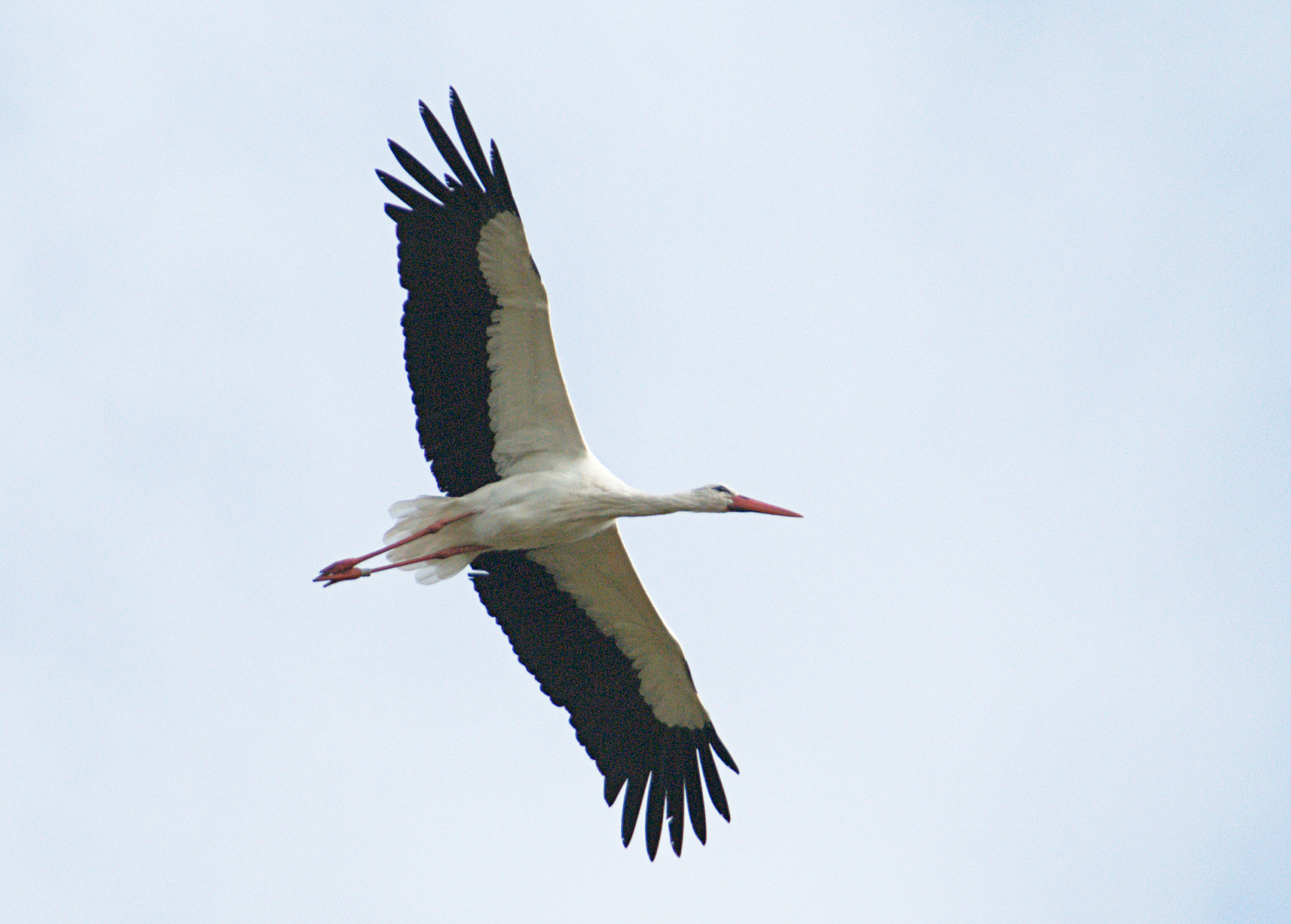 Name: Ciconia ciconia. Family: Ciconiidae. Location: Naturerlebnisraum Rieselfelder, Münster, NRW, Germany